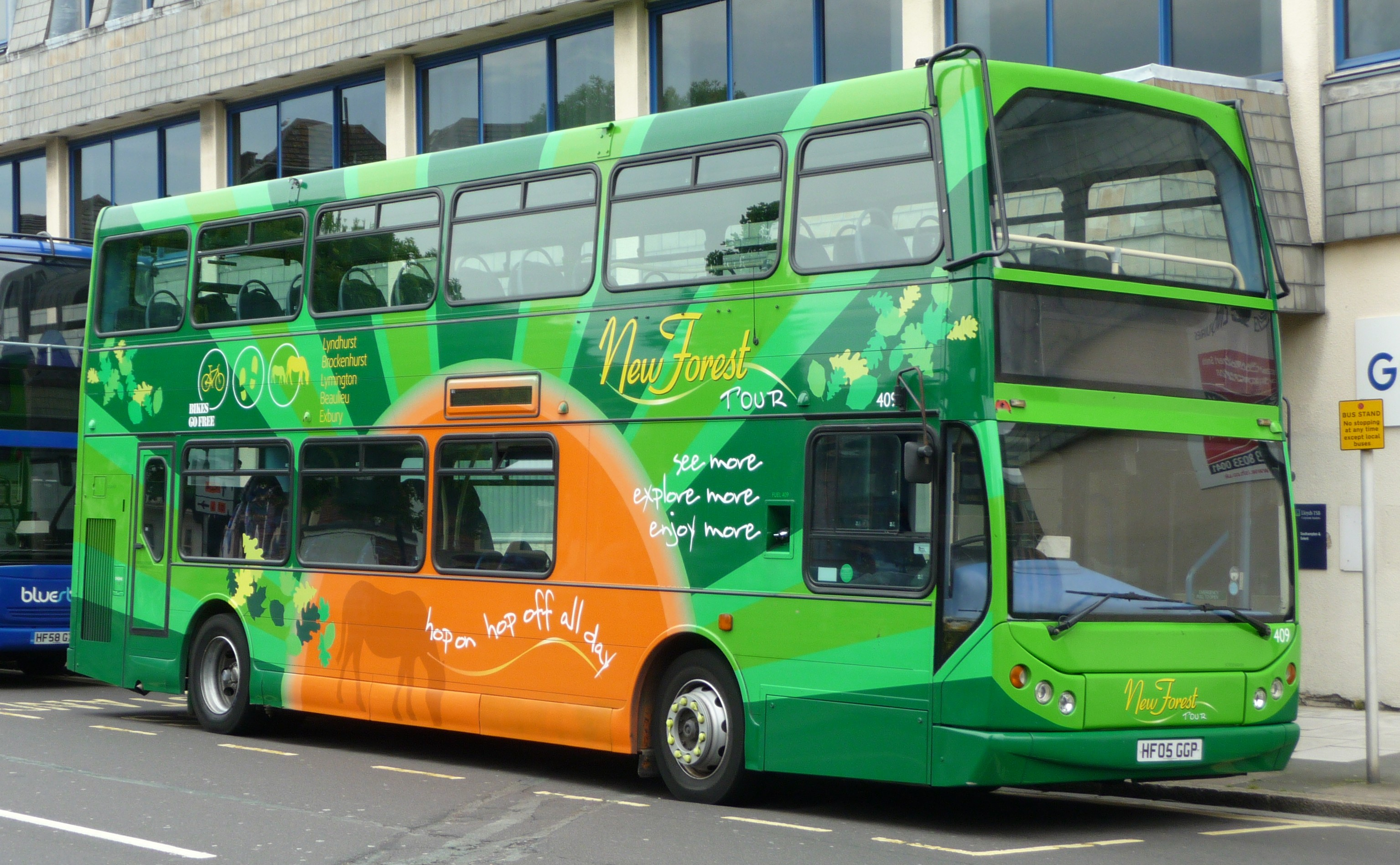 Bluestar 409 (HF05 GGP), a Volvo B7TL/East Lancs Myllennium Vyking convertable open top, in Castle Way, Southampton, laying over out of service.